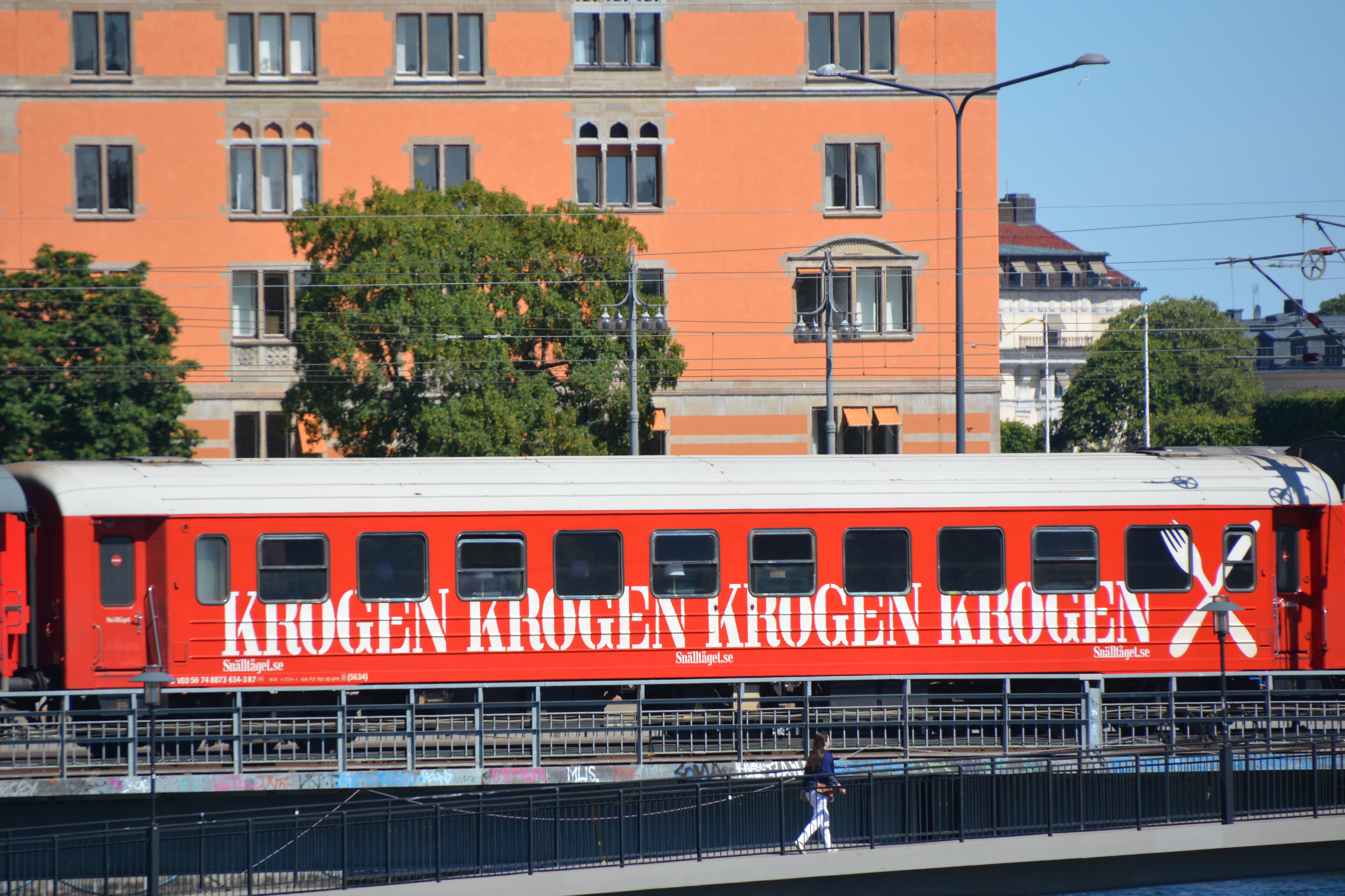 Restaurangvagn på Snälltåget, utanför Rosenbad i Stockholm